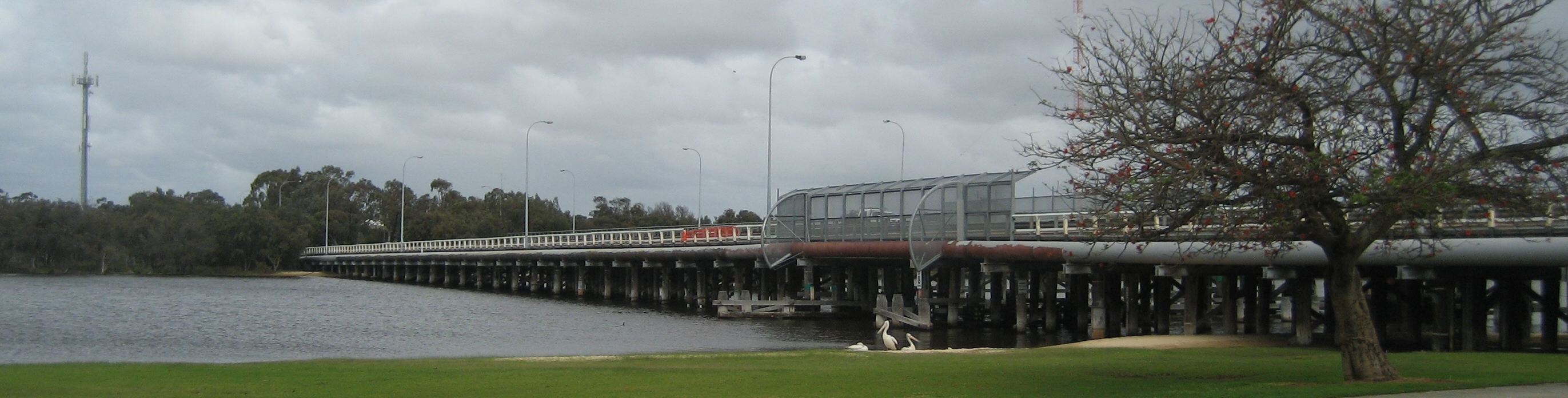 Garratt Road Bridge - cropped version of File:Garratt Road Bridge.jpg